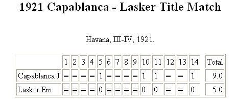 Chess_1921_Lasker-Capablanca_Match